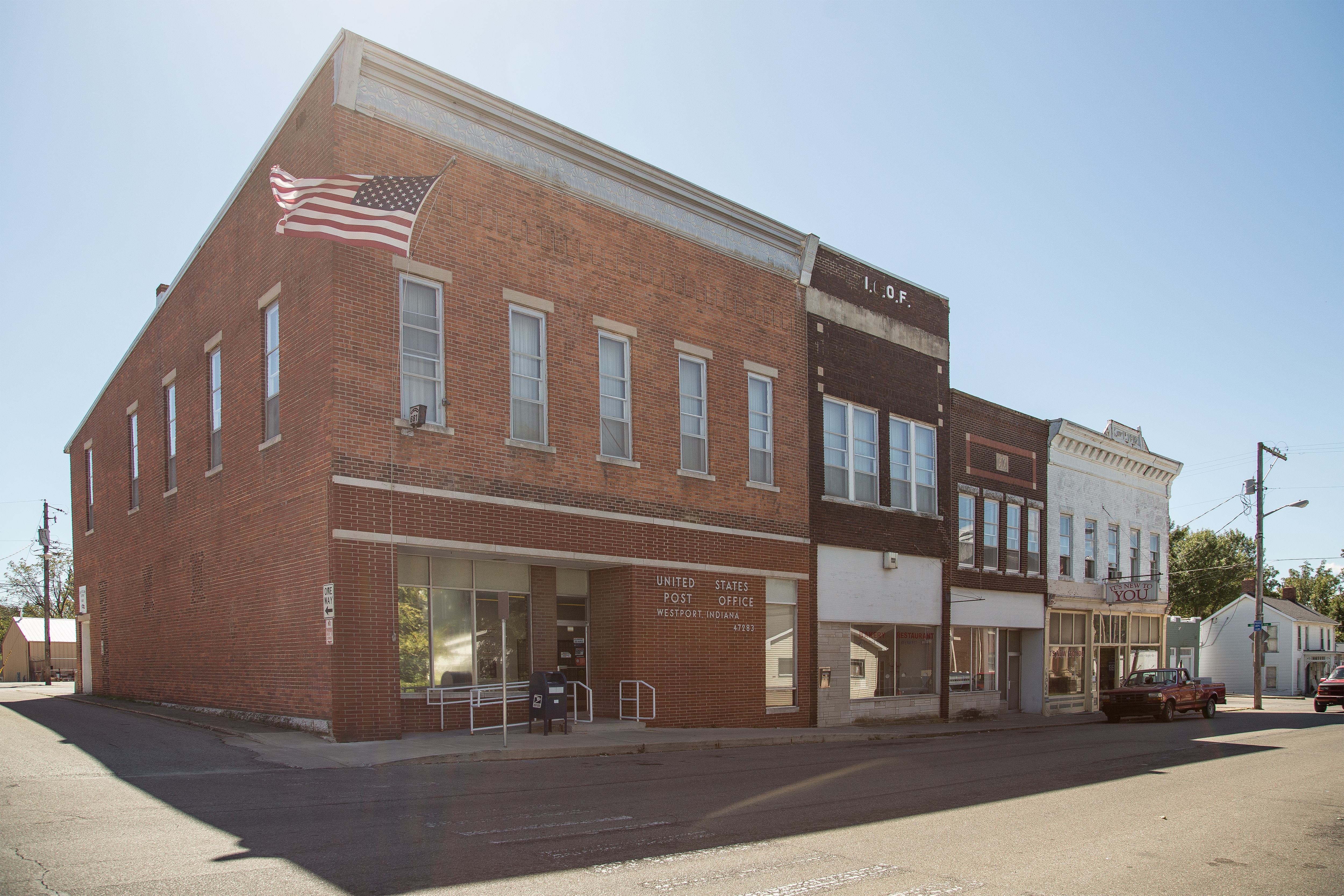 Westport, Indiana